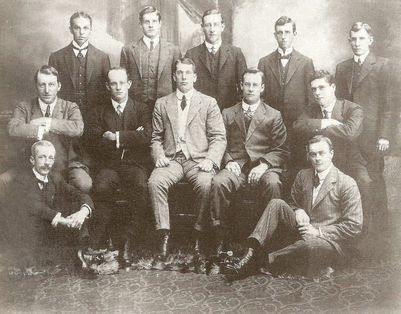 The Australian cricket team that played South Africa in the 4th test at the MCG 17-20 February 1911; incorrectly described previously as The Australian cricket team that played England in the 1911-12 tour. Gehr did not play in 1911-12 v England; the 4th test v South Africa was his last. Matthews is pictured as he was 12th man for this test, and made his debut v England in the 1911-12 series. Top: Horden, Kelleway, Gehrs, Ransford, Matthews Centre: Armstrong, Cotter, Hill (c) Trumper, Whitty Front: Carter, Bardsley